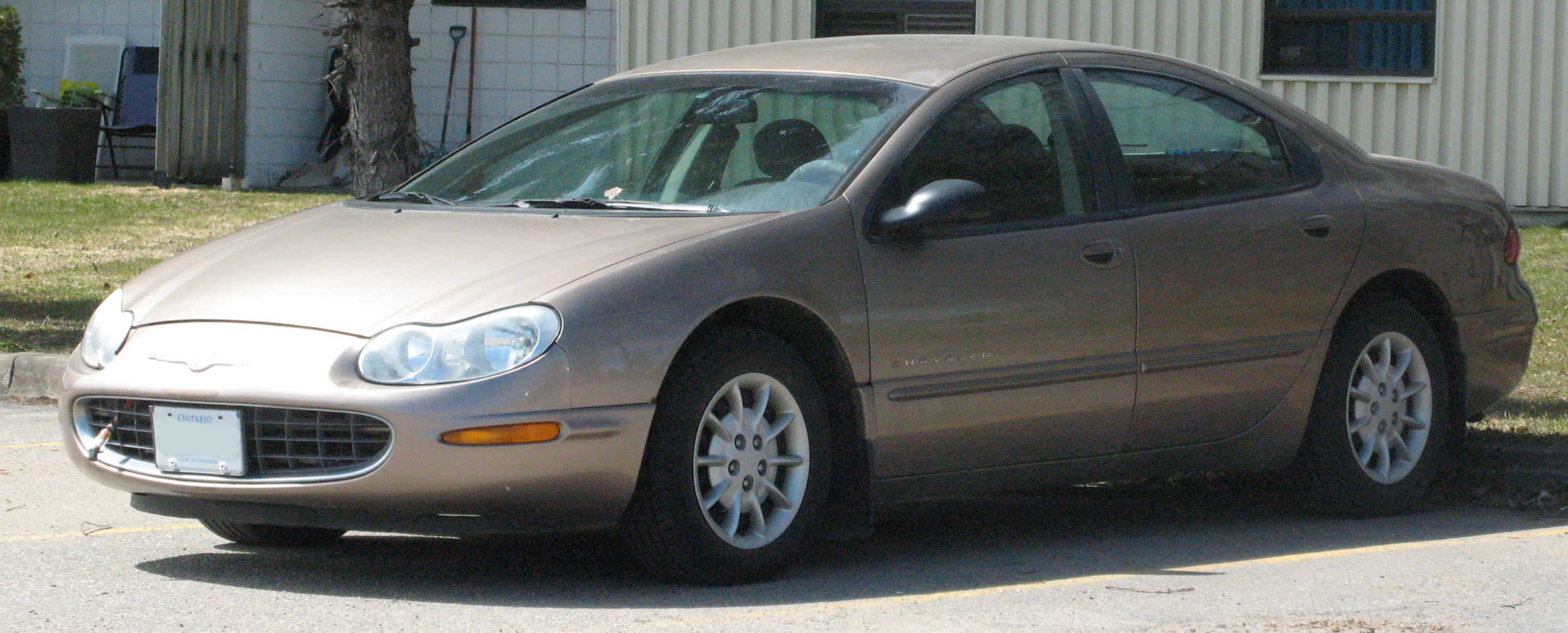 1999 Chrysler Concorde LX photographed in Sault Ste. Marie, Ontario, Canada